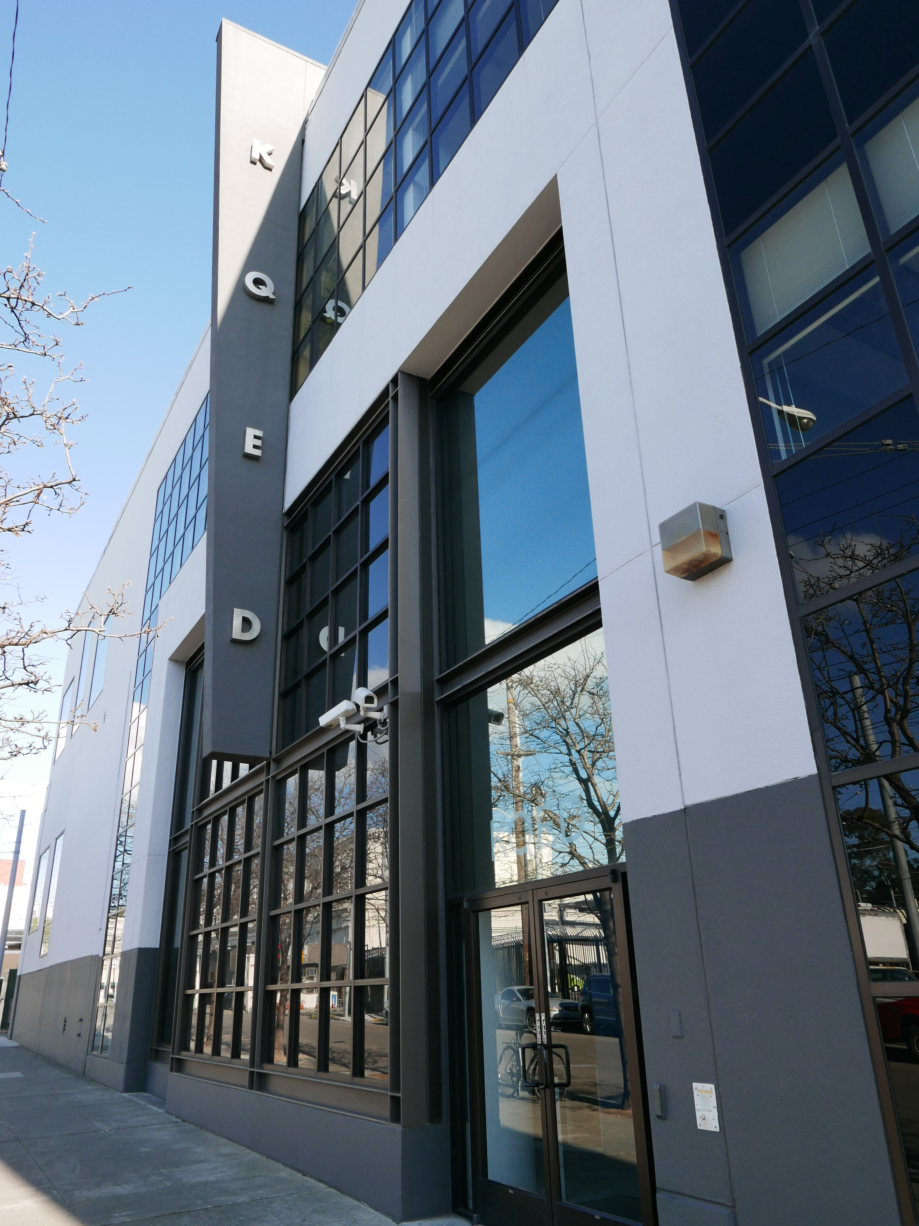 KQED office at 2601 Mariposa Street in San Francisco